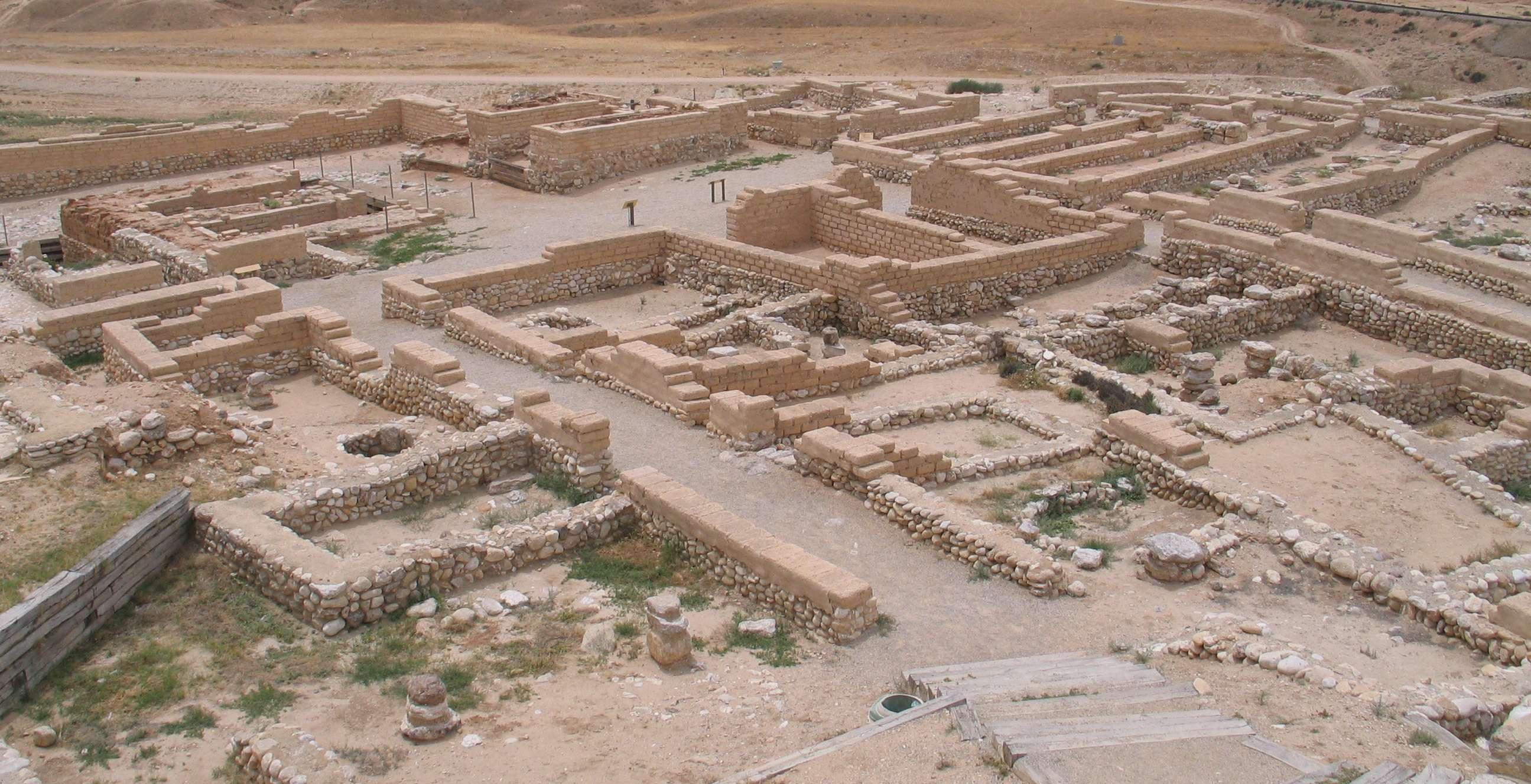 Tel Beer Sheva national park, Israel.